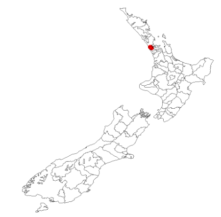 Carmichaelia aligera occurrence data from Australasian Virtual Herbarium downloaded 2 December 2019 using